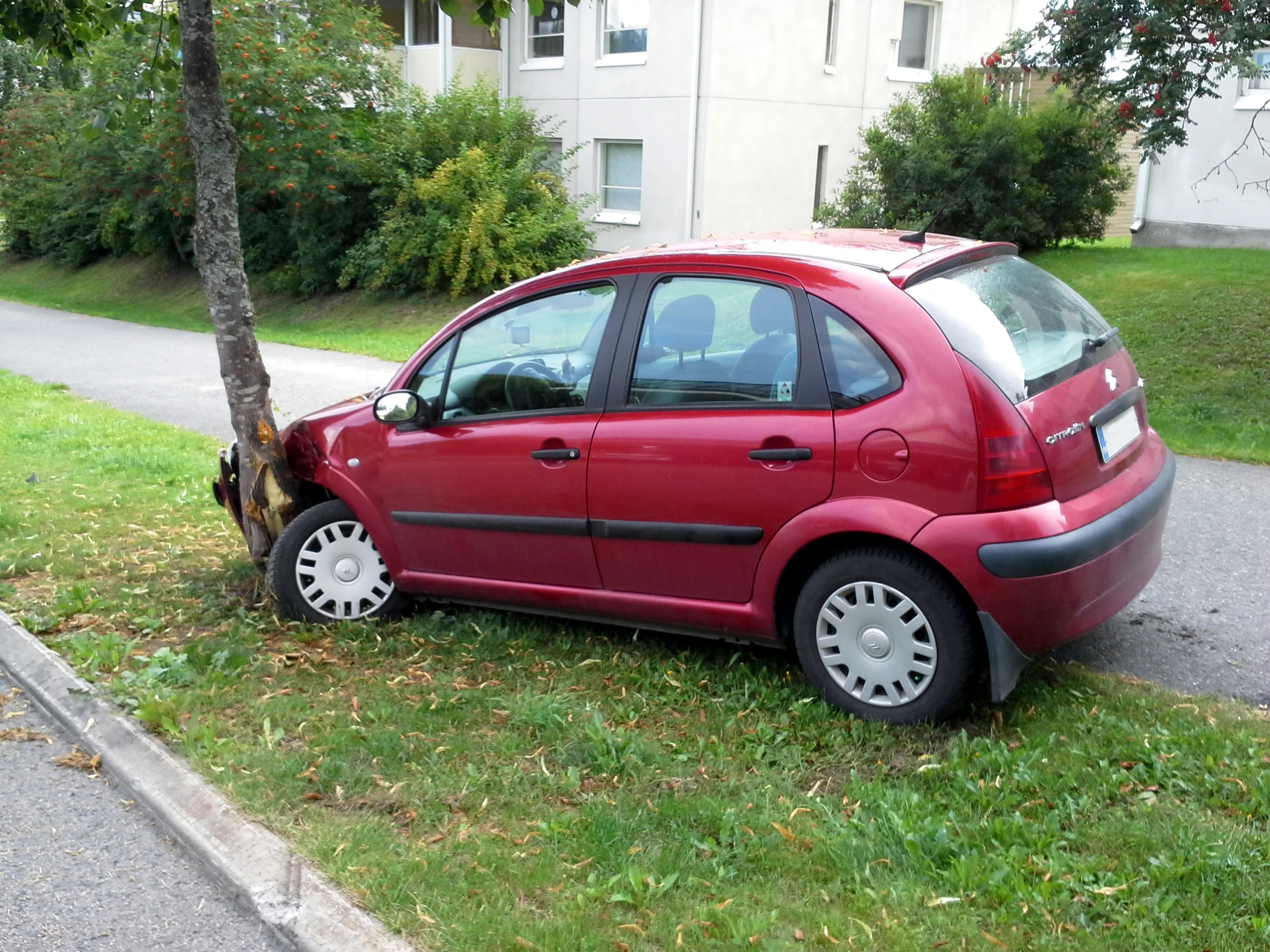 The person driving the car was rolling down a sidewalk until she realised all those people walking in front of her might imply she isn't where she should be. She then tried to rejoin the driveway by taking a left turn which resulted in a hilarious slow-speed crash as she failed to spot a tree in her way.